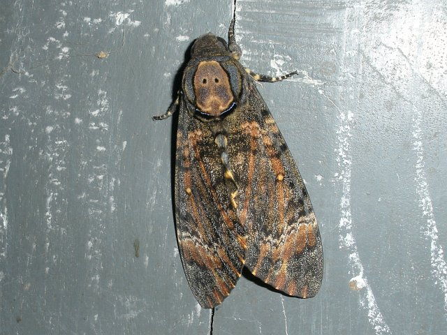 Acherontia styx styx India, Hooghly, West Bengal